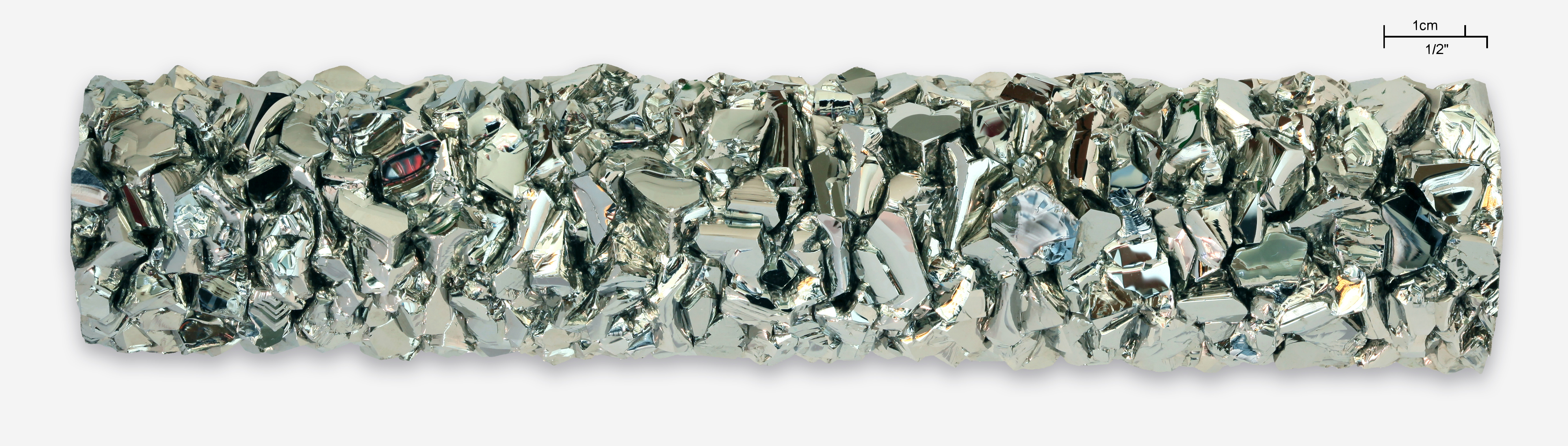 A sample of a 1,7kg Hafnium crystal bar, made by van Arkel-de Boer process. The real background is removed. The shadow is added via Photoshop.